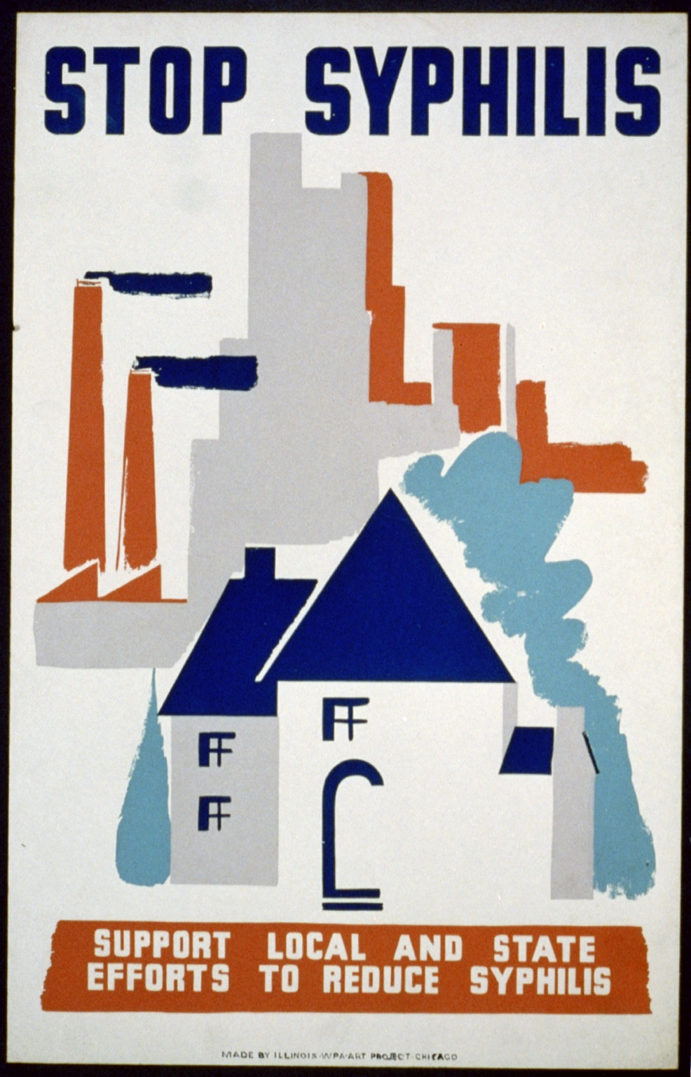 Title: Stop syphilis Abstract: Poster showing a house, city skyscrapers, and smokestacks. Physical description: 1 print on board (poster) : silkscreen, color. Notes: Date stamped on verso: Mar 27 1940.; Work Projects Administration Poster Collection (Library of Congress).